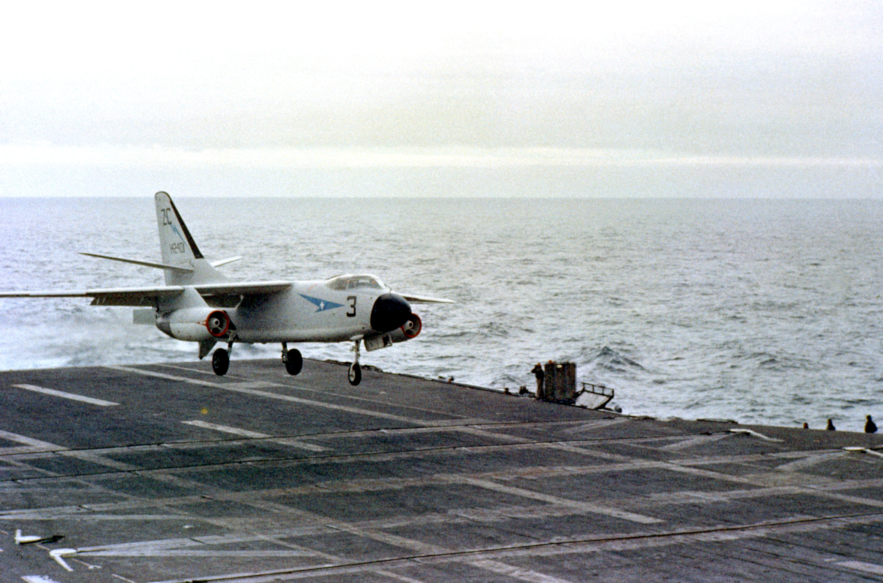 An U.S. Navy Douglas A3D-2 Skywarrior (BuNo 142401) assigned to heavy attack squadron VAH-6 Fleurs approaches for a landing aboard the attack aircraft carrier USS Ranger (CVA-61), on 23 April 1958. This aircraft was converted to KA-3B tanker in 1967.